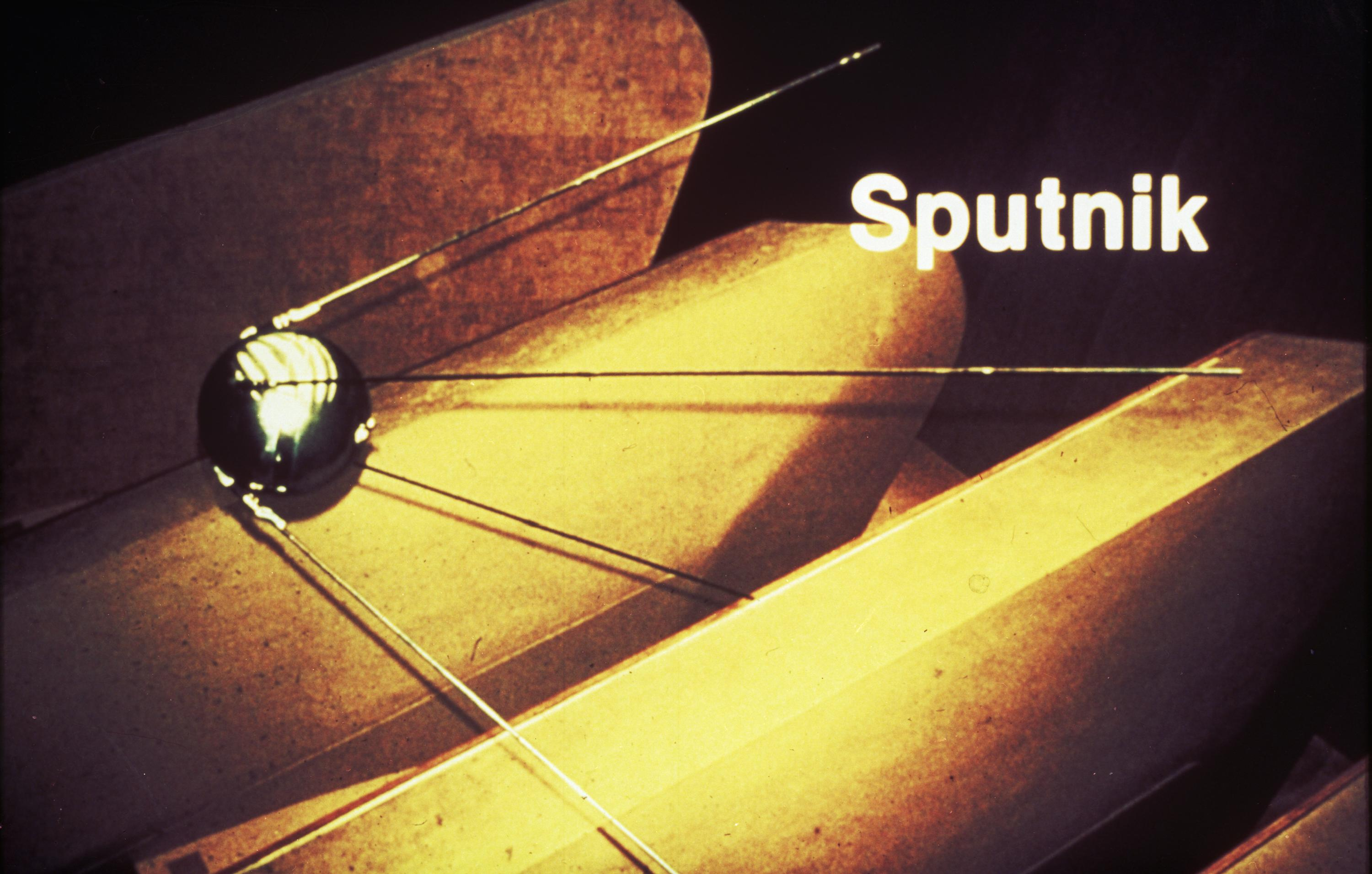 On Oct. 4, 1957, the Soviet Union launched Sputnik, humanity's first artificial satellite, thereby ushering in the Space Age.